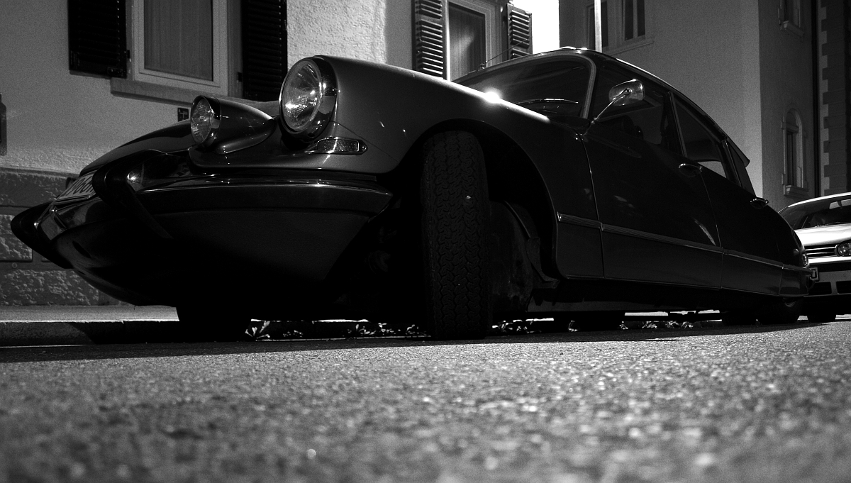 Picture of a Citroen DS 19